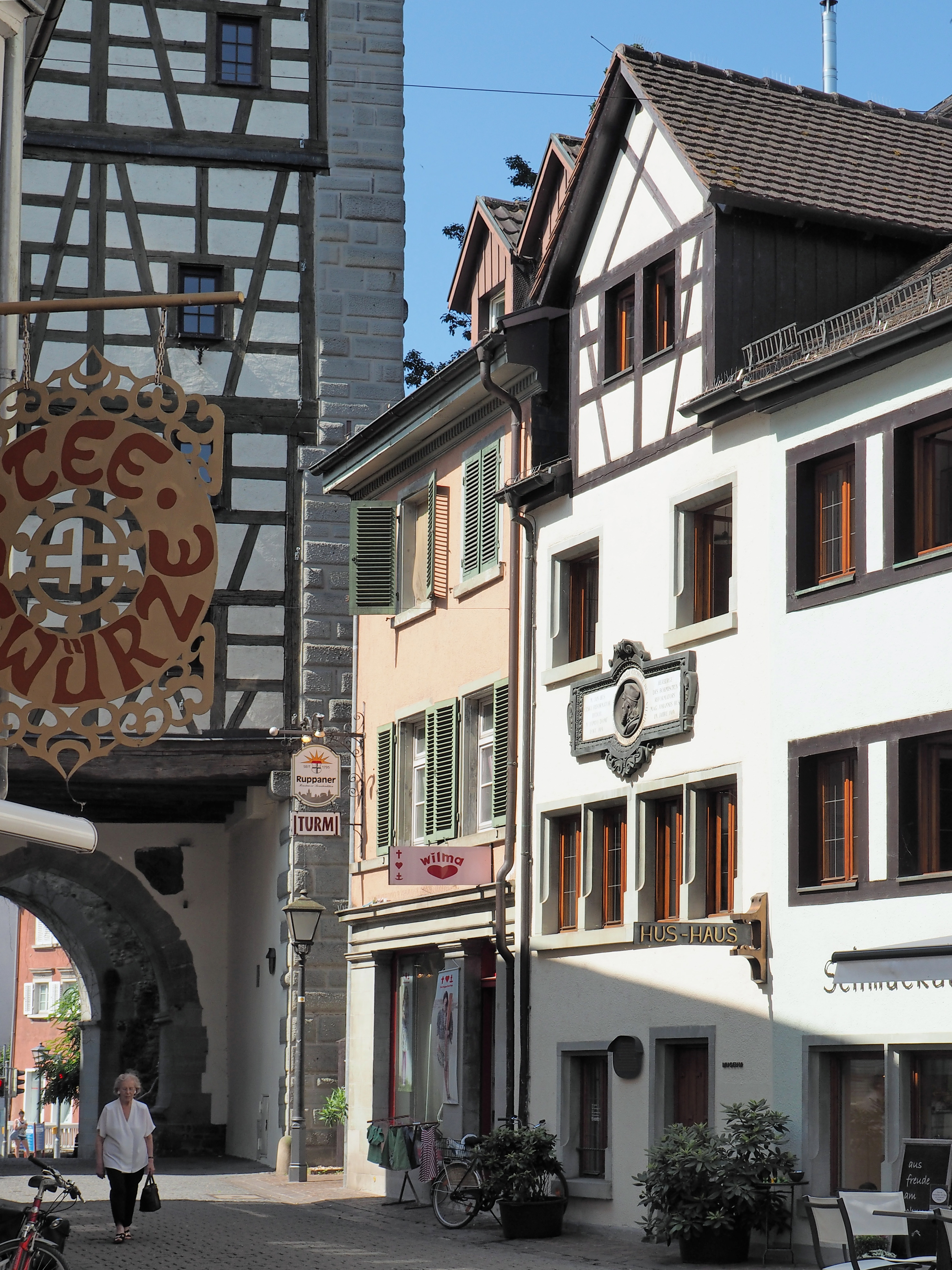 Hus museum in Konstanz.